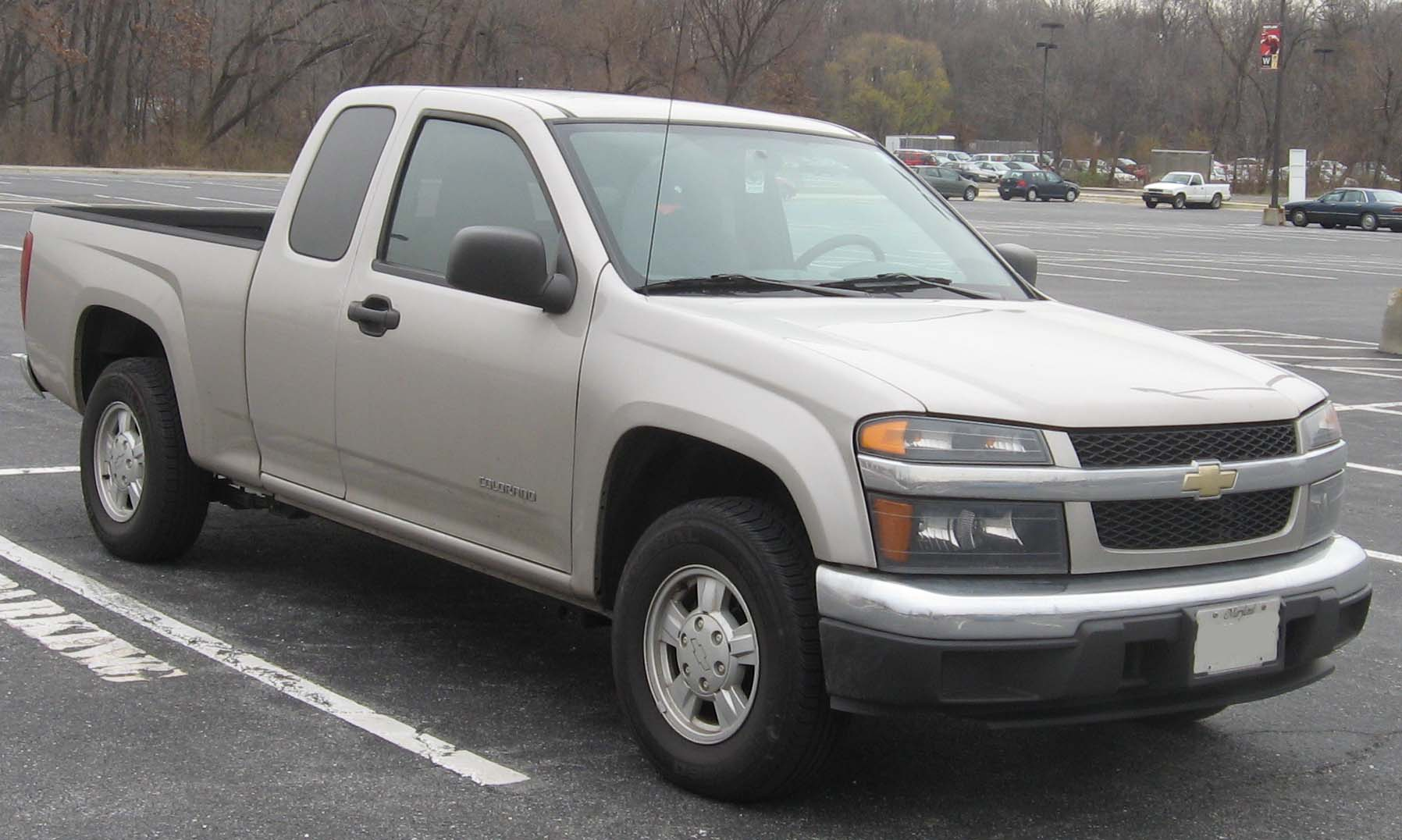 2004-2008 Chevrolet Colorado photographed in College Park, Maryland, USA.